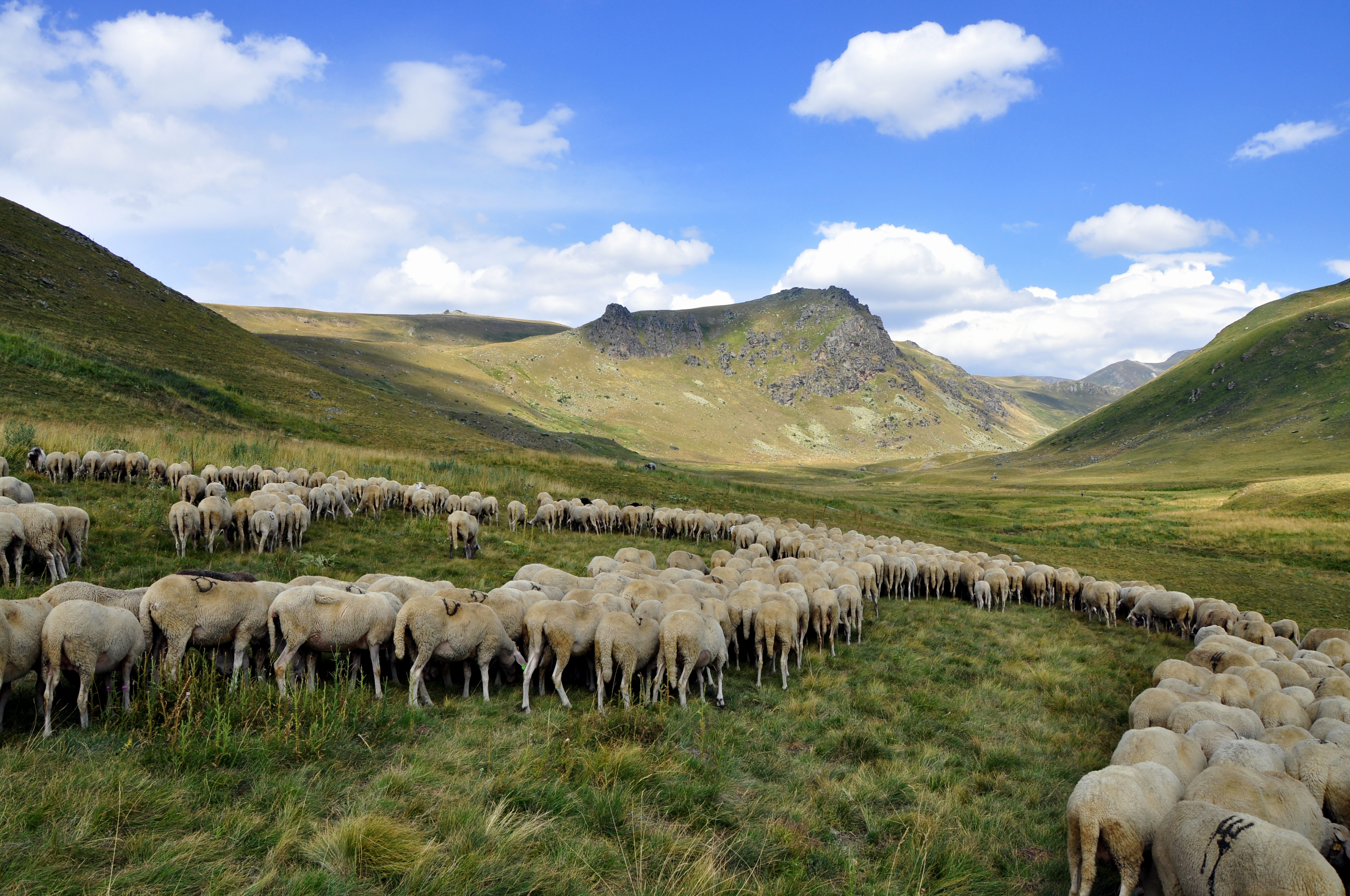 Sheep on the pastures, Shar Mountain, Kosovo